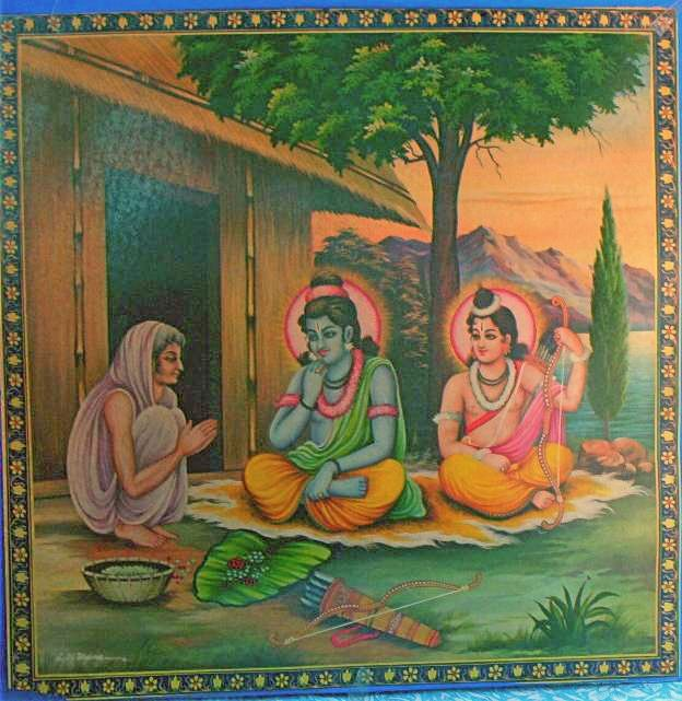 The Shabari episode, from an early-20th-century print Source: ebay, Feb. 2004